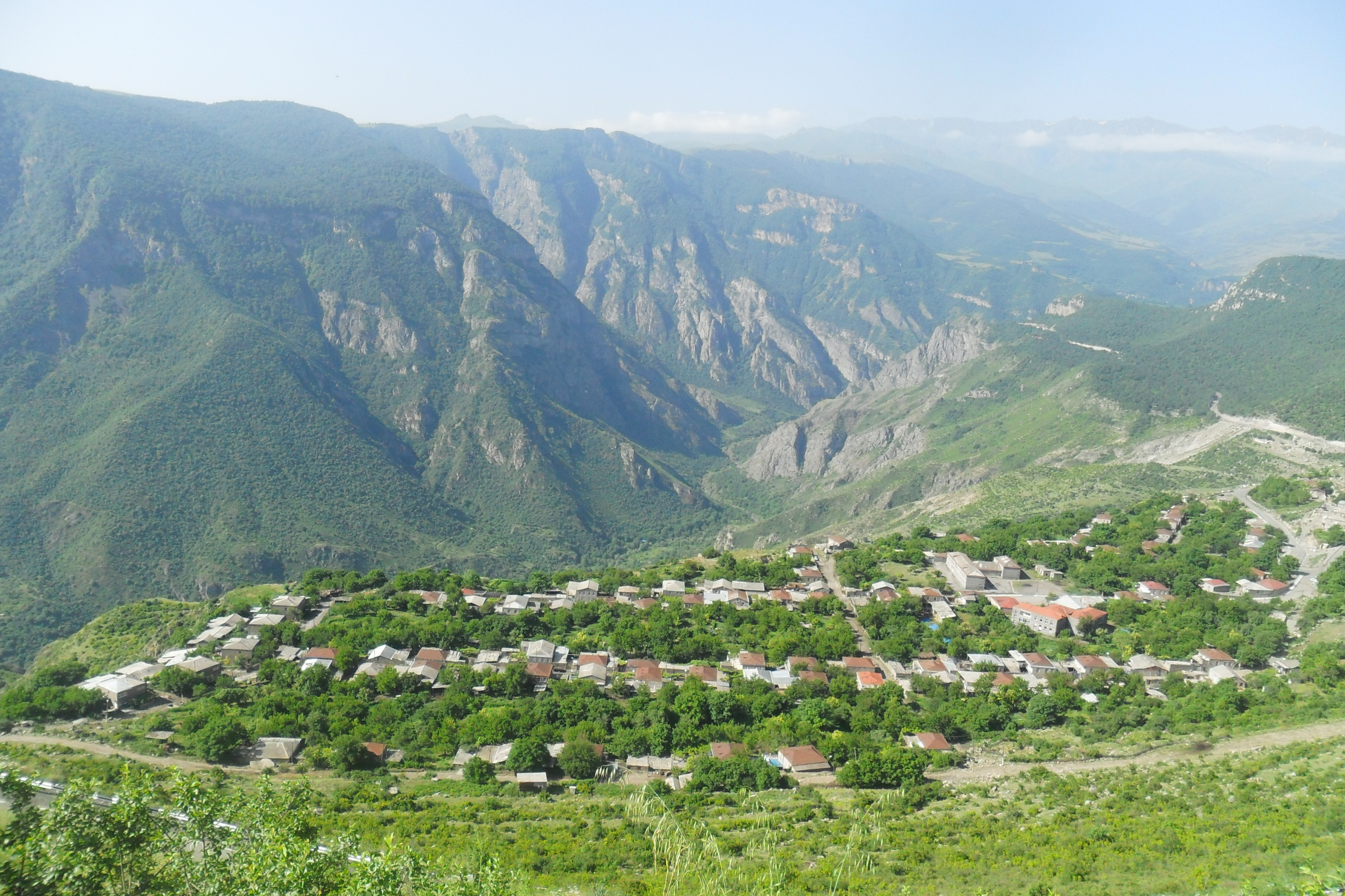 Village Tatev